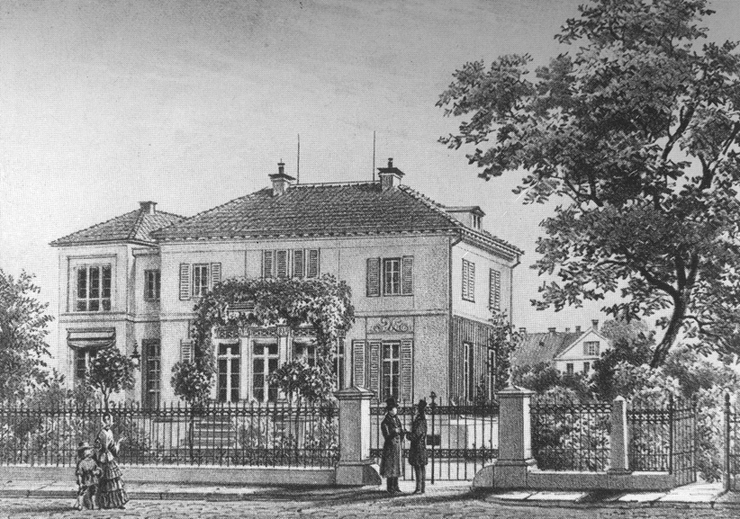 Lithography by Fr. H. Borchel from the year 1848, showing the house of mayor Johann Smidt on the Contrescarpe in Bremen.